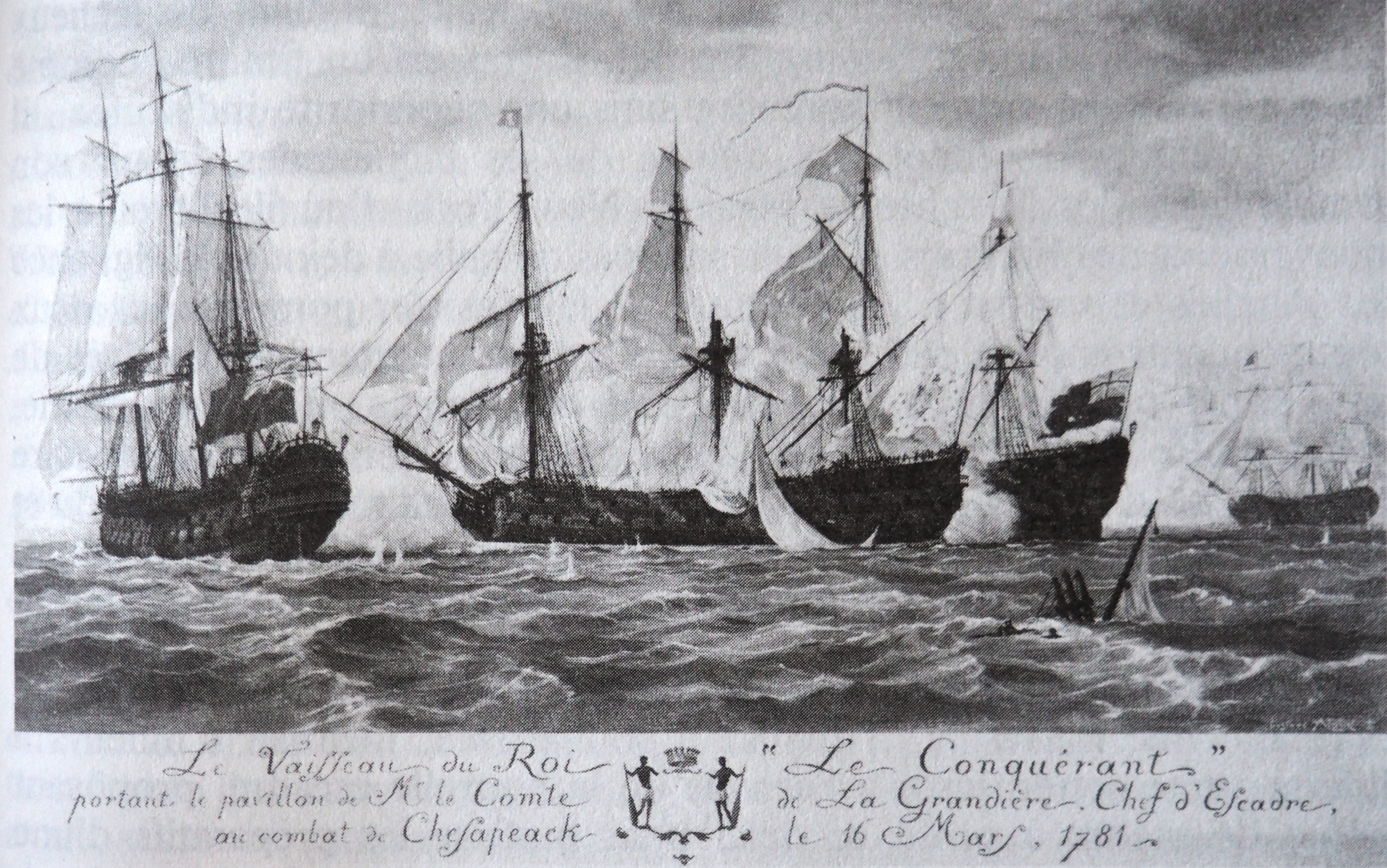 Engraving showing the French ship of the line Conquérant at the